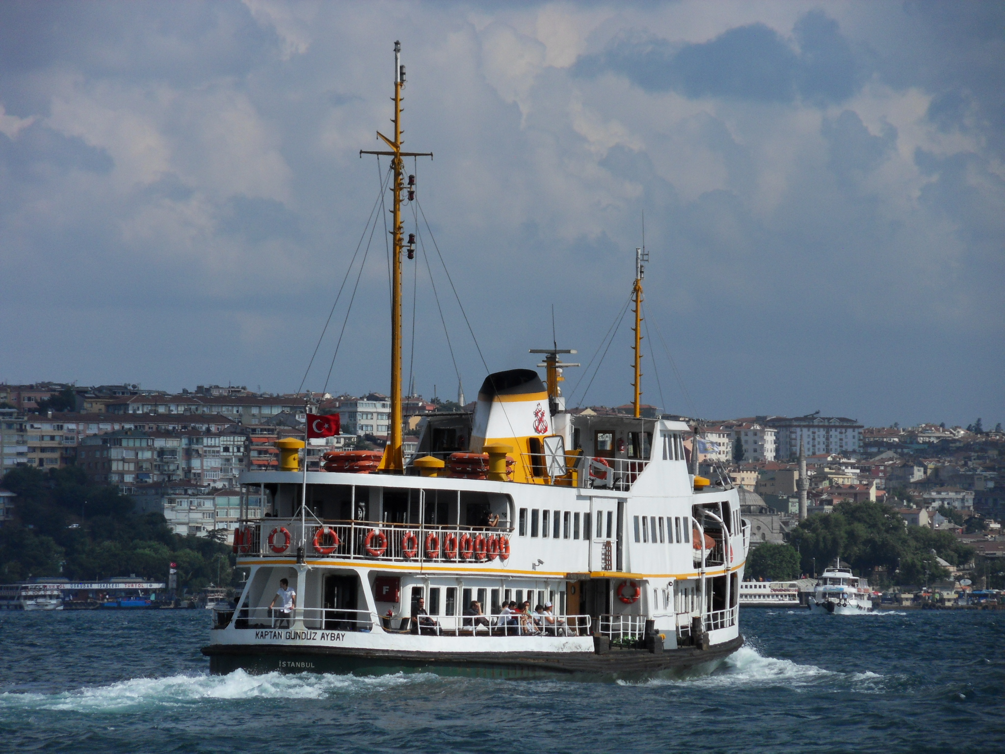 Small type of vapur